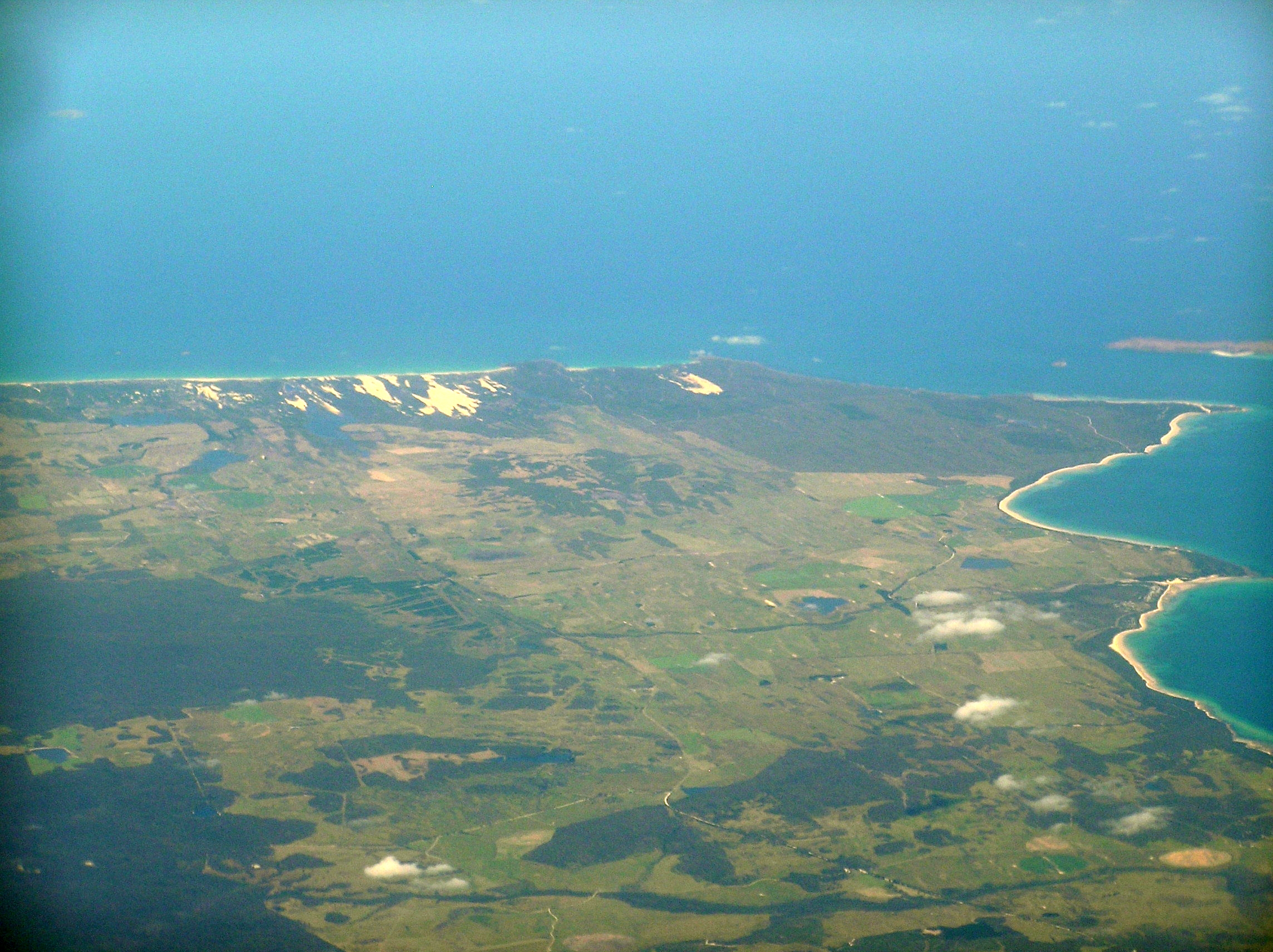 Tomahawk Tasmania area: Waterhouse Beach with Blackman Lagoon on left, then Sheepwash Creek Dam, then Big Waterhouse Lake, Little Waterhouse Lake, South Croppies Point (end of beach). Croppies Bay Croppies Point then Waterhouse Point at right with art of Waterhouse Island Ransons Beach, Tomahawk Beach, West Tomahawk Beach, Tomahawk Point with Tomahawk the village